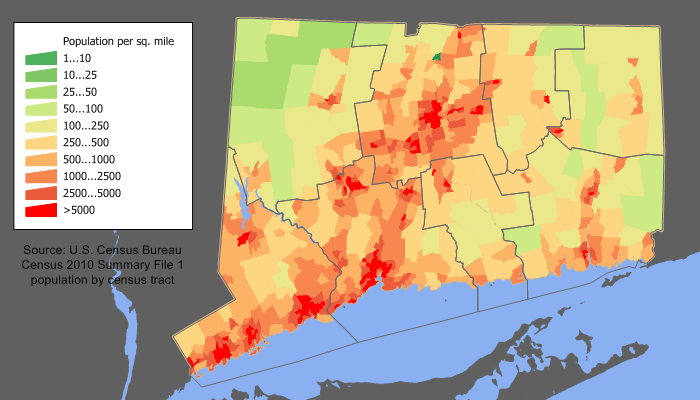 Connecticut population density map based on Census 2010. See the process description for the data lineage.